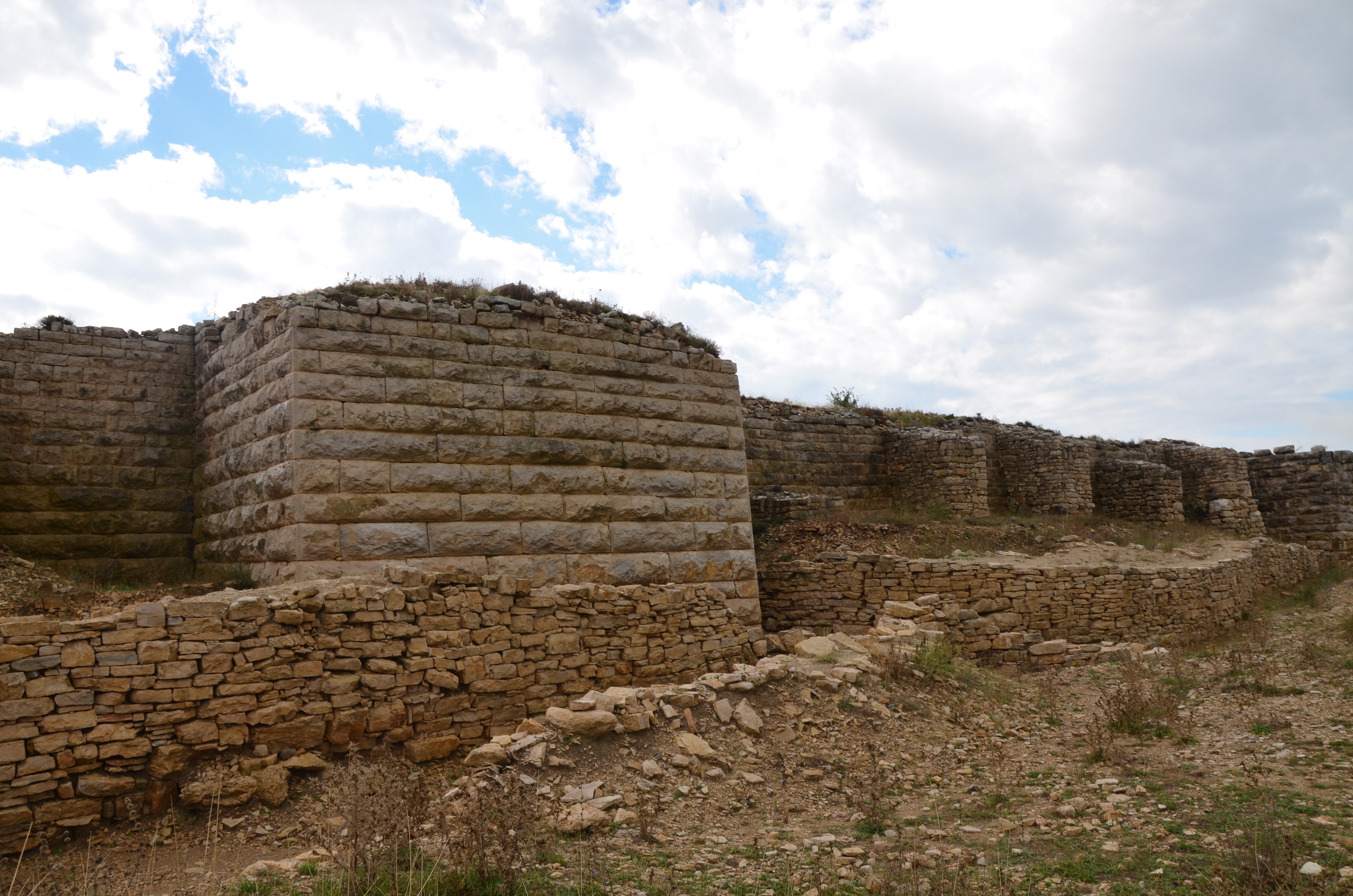 At Asseria, near Podgrađe, 6km east of Benkovac are the remains of an urban settlement almost a kilometre long. Asseria was founded long before the Romans set foot on these lands. It was a powerful centre of the Liburnian tribe, whose territories stretched for miles along the eastern Adriatic coast. When the Romans later occupied these lands, Asseria grew to become a municipality with a governing council. The golden era of Asseria came to an end when Avar (and sometimes Slav) tribes swept across the plains of Europe, and the Roman Empire crumbled. The last mention of the settlement is from the 11th century.